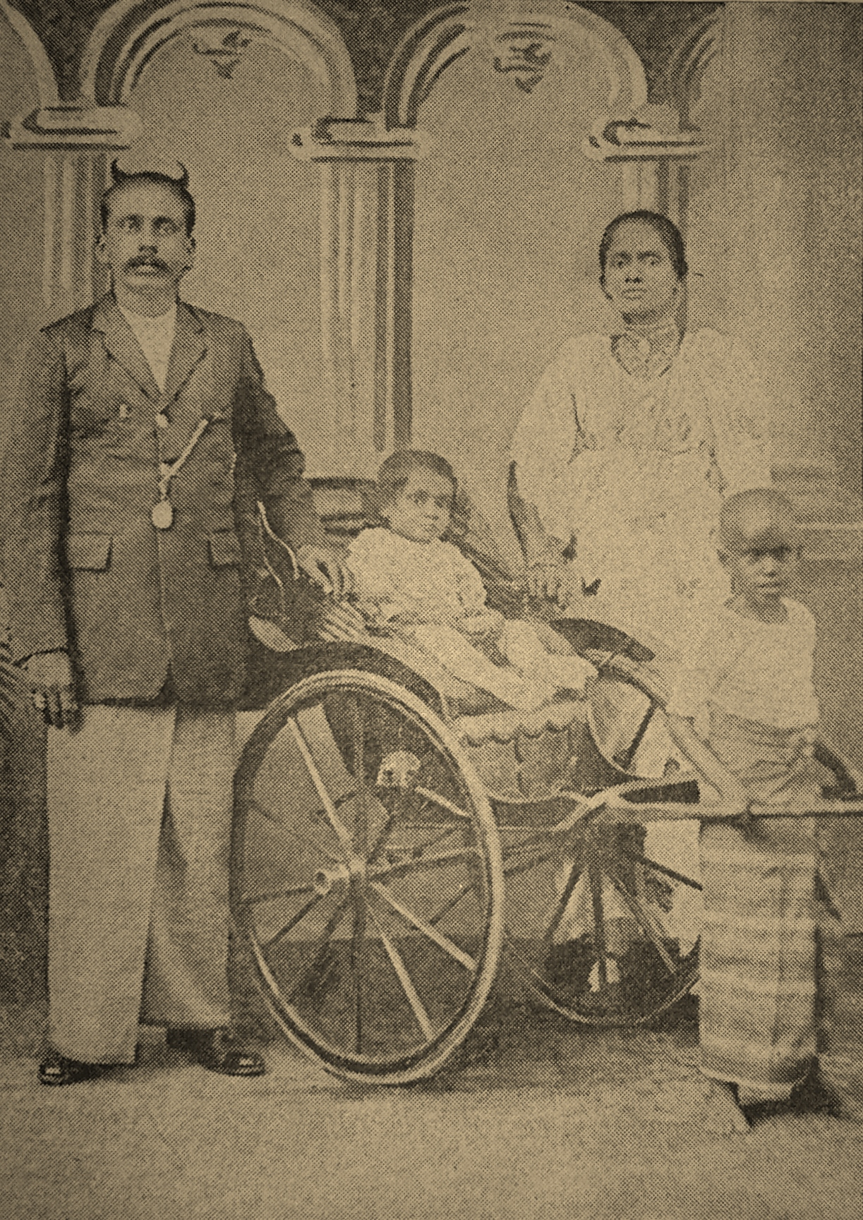 Very Rare Photograph of 1 Year old Ranasinghe Premadasa with his Parents.